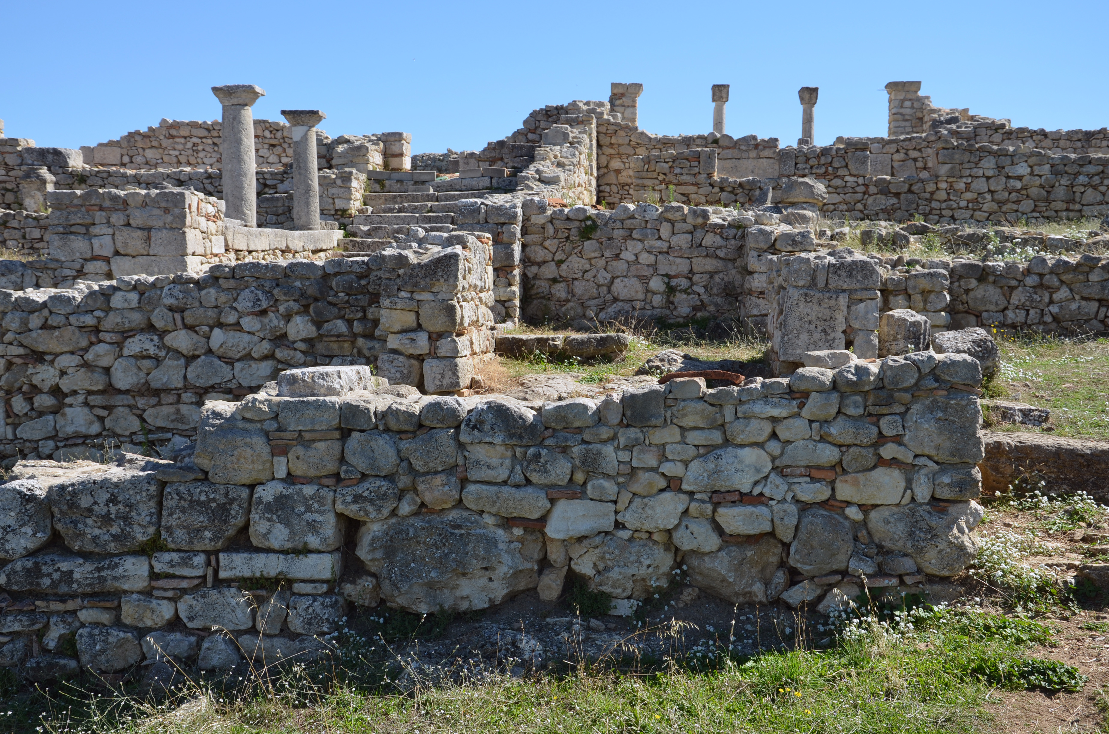 Basilica B from the exonarthex in Byllis, Albania